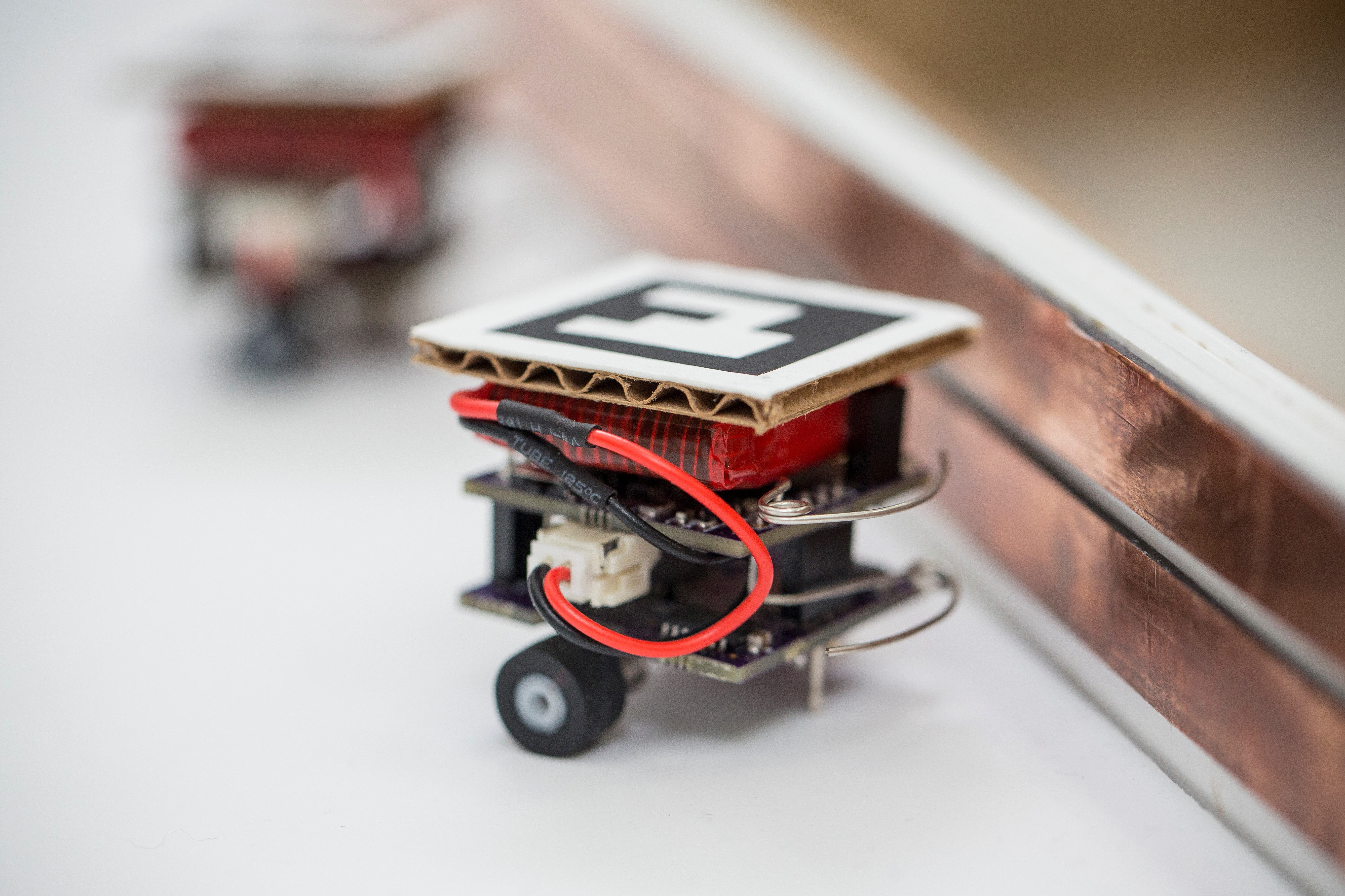 A GRITSbot, developed in Dr. Egerstedt’s lab, is approaching a charging strip in the Robotarium, which is a remotely accessible swarm robotics lab housed at the Georgia Institute of Technology.